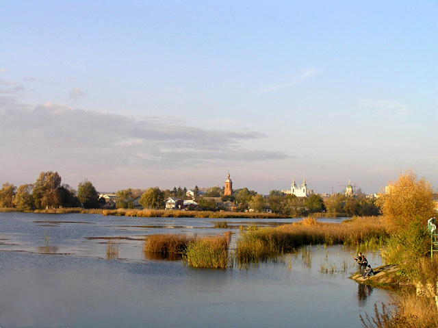 General view of Bar. Photo courtesy of Petro Vlasenko .